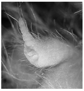 Glans p of the male M. eleryi